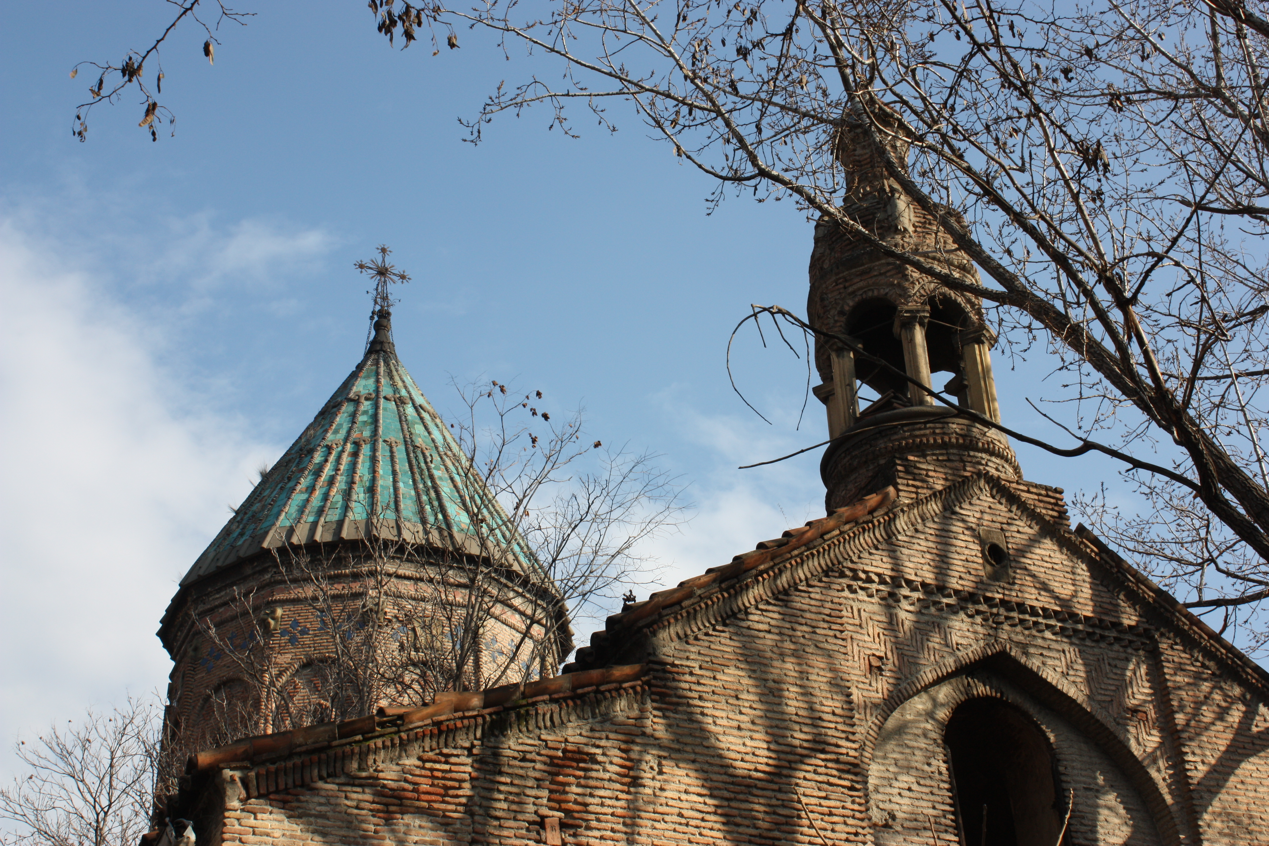 Surb Nishan Armenian church in Tbilisi